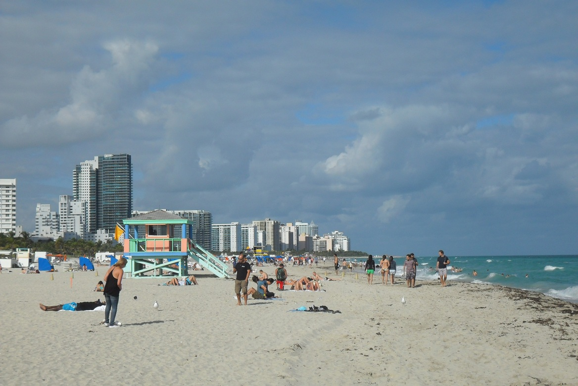 Miami Beach, FL, USA